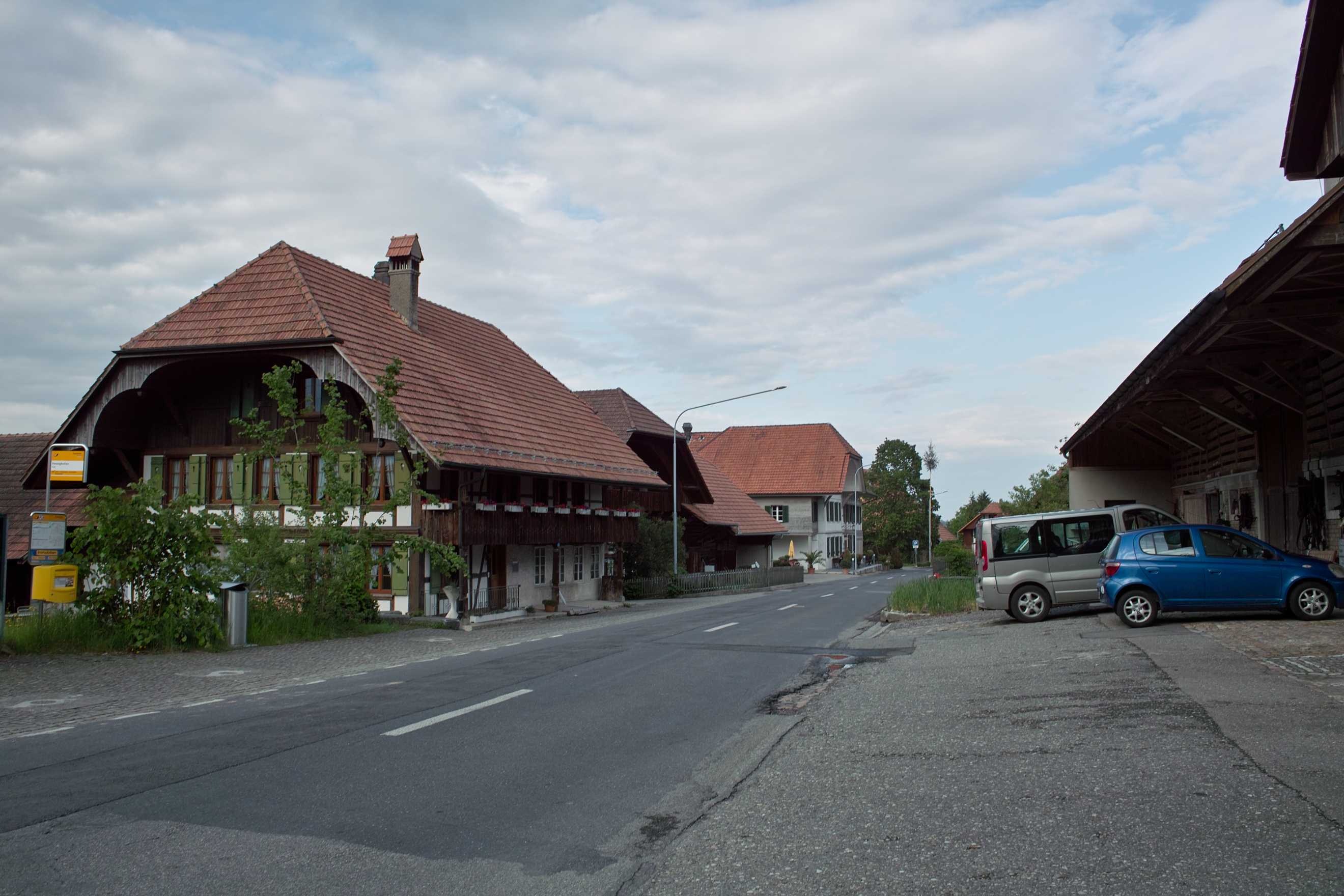 Village of Hessigkofen, canton of Solothurn, Switzerland.